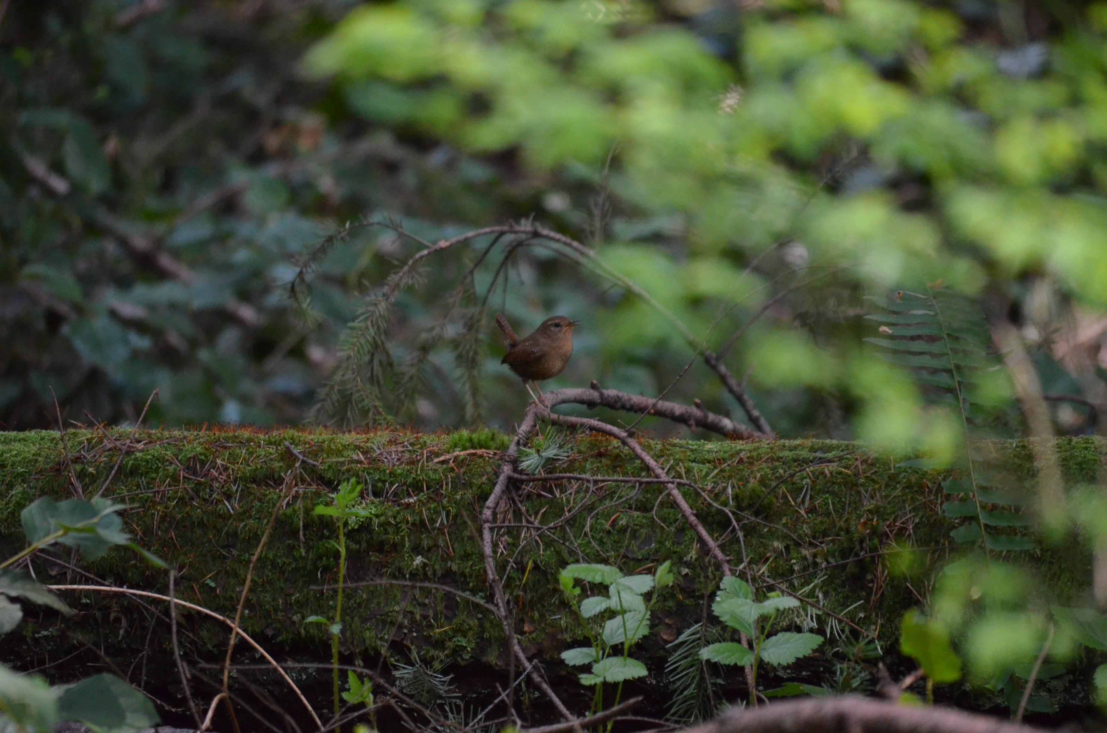 You can hear Pacific Wrens singing as you walk along the trails. Malcolm Knapp Research Forest, BC, Canada